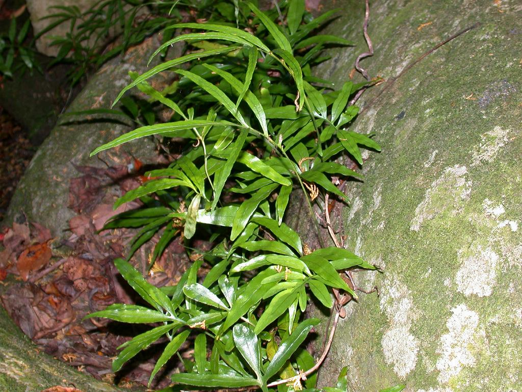 Colysis elliptica (Polypodiaceae) Japanese name:Iwahitode Date;2007,11,16;Susami town, Wakayama prefecture, Japan Author;Keisotyo